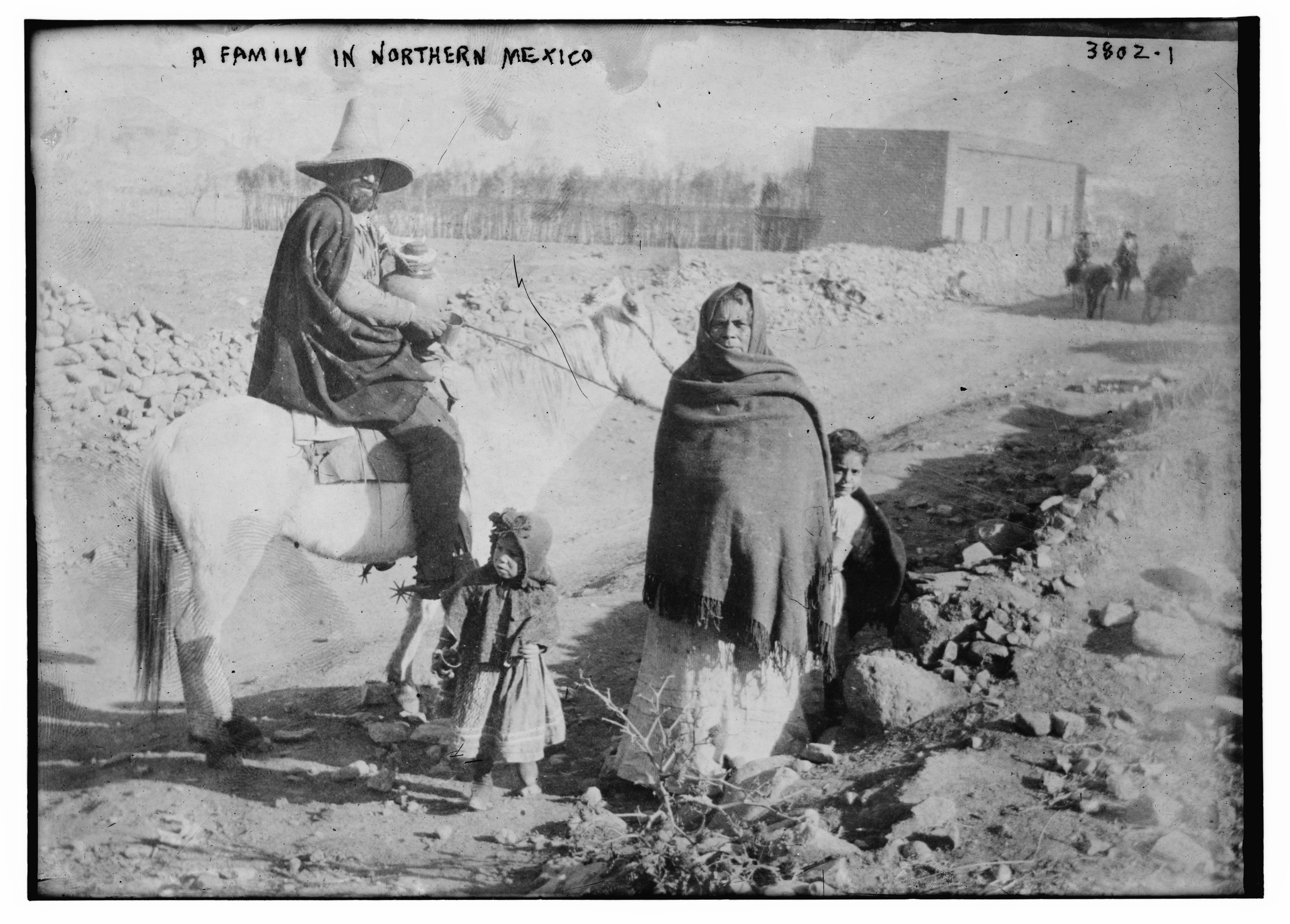 Title: A family in Northern Mexico Abstract/medium: 1 negative : glass ; 5 x 7 in. or smaller.